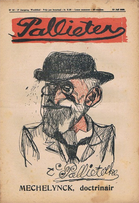 Front page of the Flemish magazine Pallieter (1922-1928). All front pages were designed and illustrated by Jos De Swerts (1890-1939). (This looks one like designed in a different style)